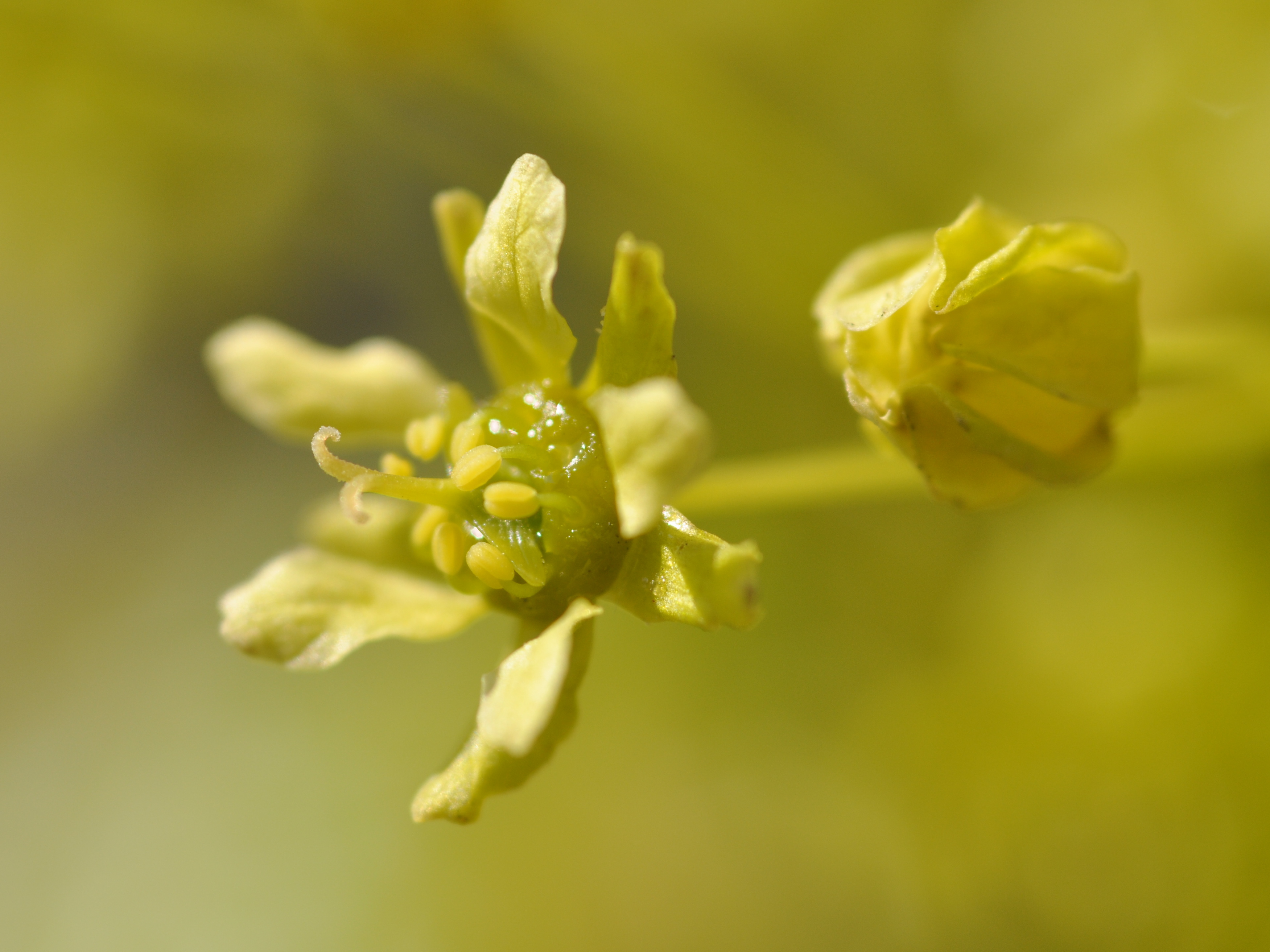 Norway Maple flowers in Bahrenfeld, Hamburg.